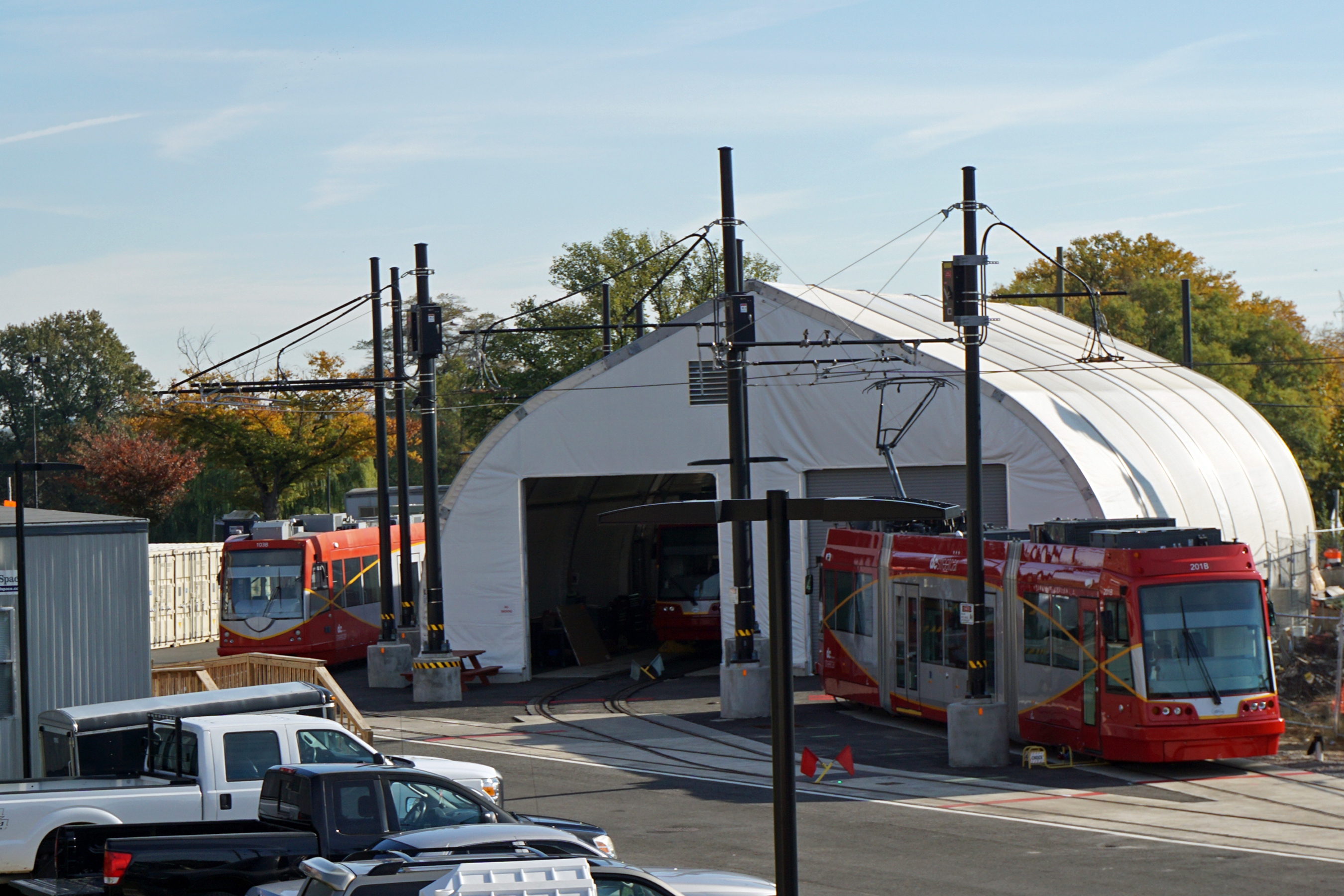 DC Streetcar yard and the temporary storage facility (car barn), Washington, D.C.